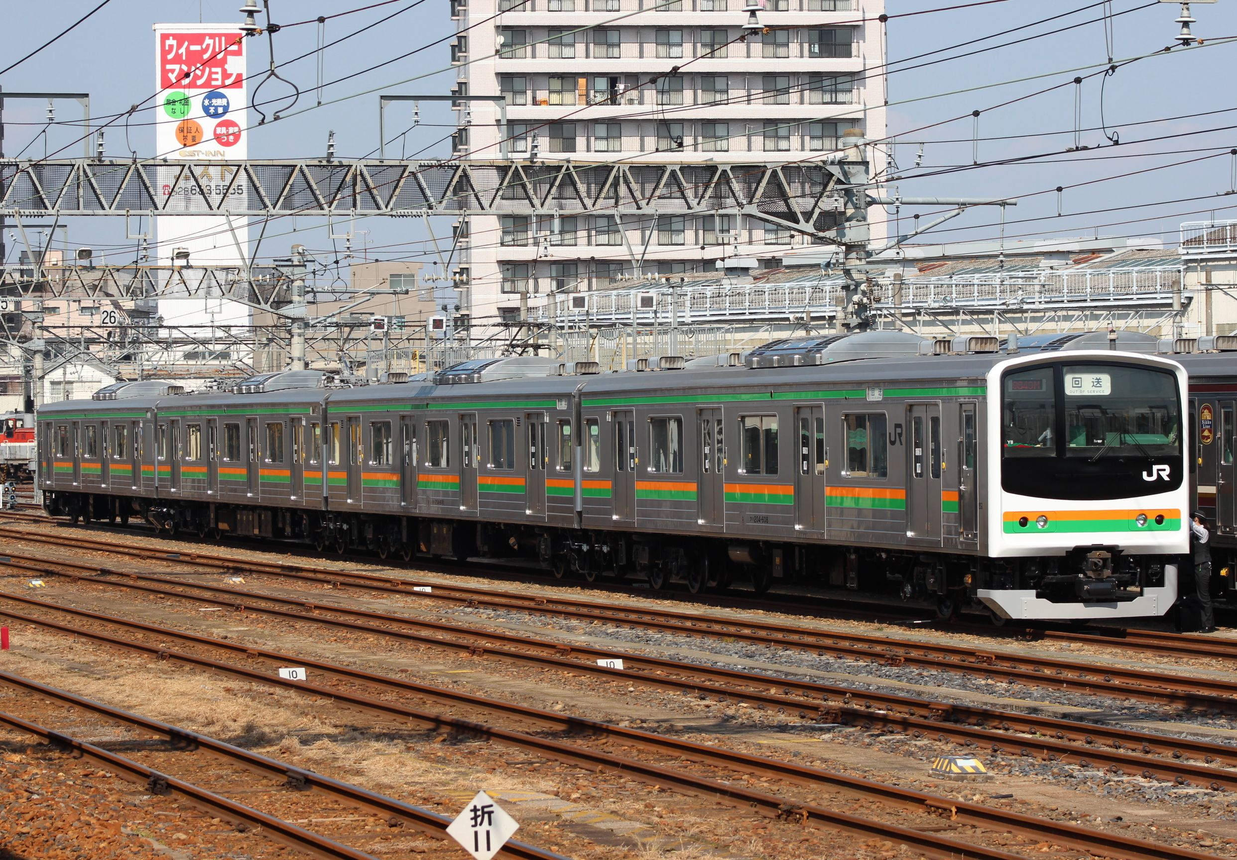 JR East 205-600 series Utsunomiya Line EMU set Y8